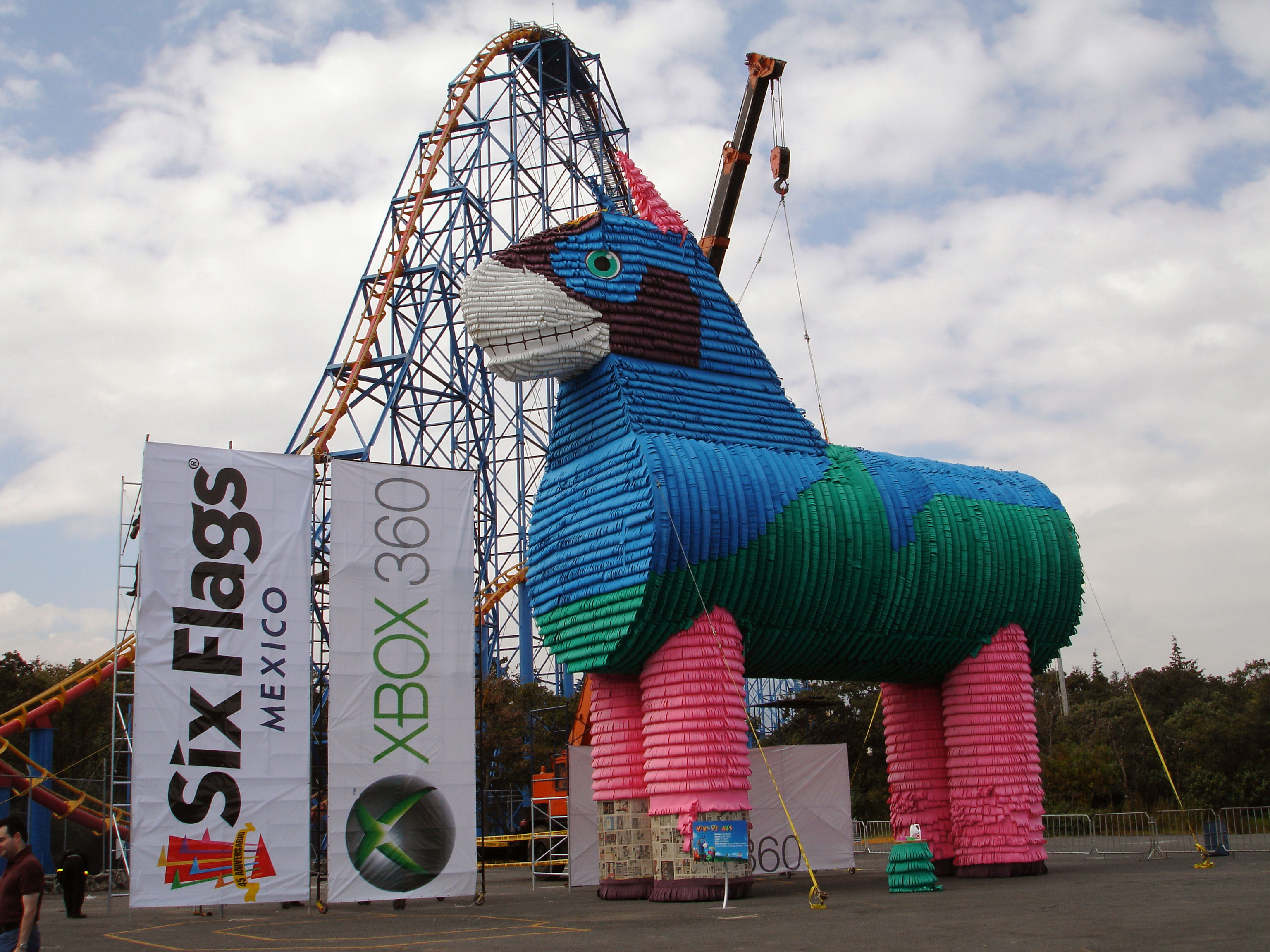 The world's largest piñata. Constructed in Six Flags Mexico by Microsoft to promote Viva Piñata, an Xbox 360 game.